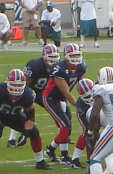 Dolphins vs. Bills 11/11/07